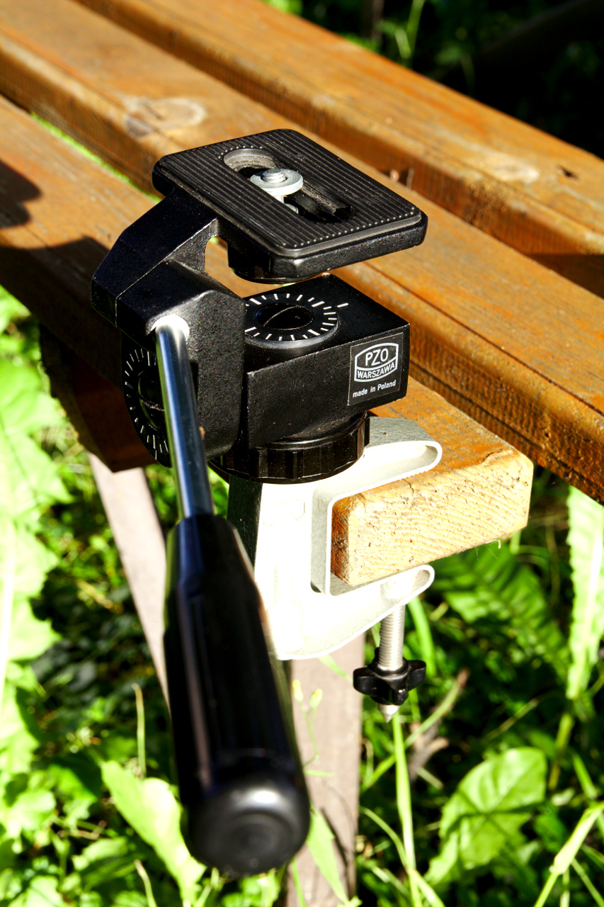 Tripod head